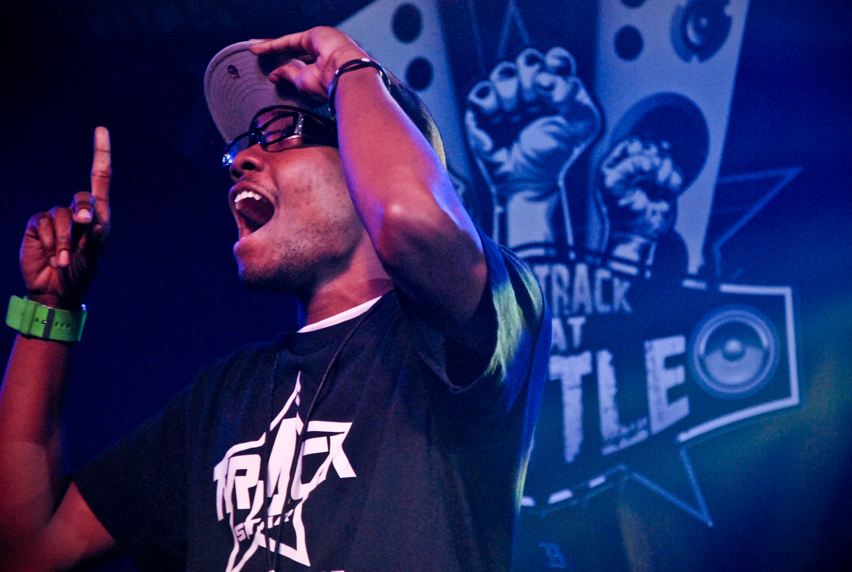 March 26, 2011 at Limelight in Nashville - Soundtrack Beat Battle Runner Up Yeyo Beatz